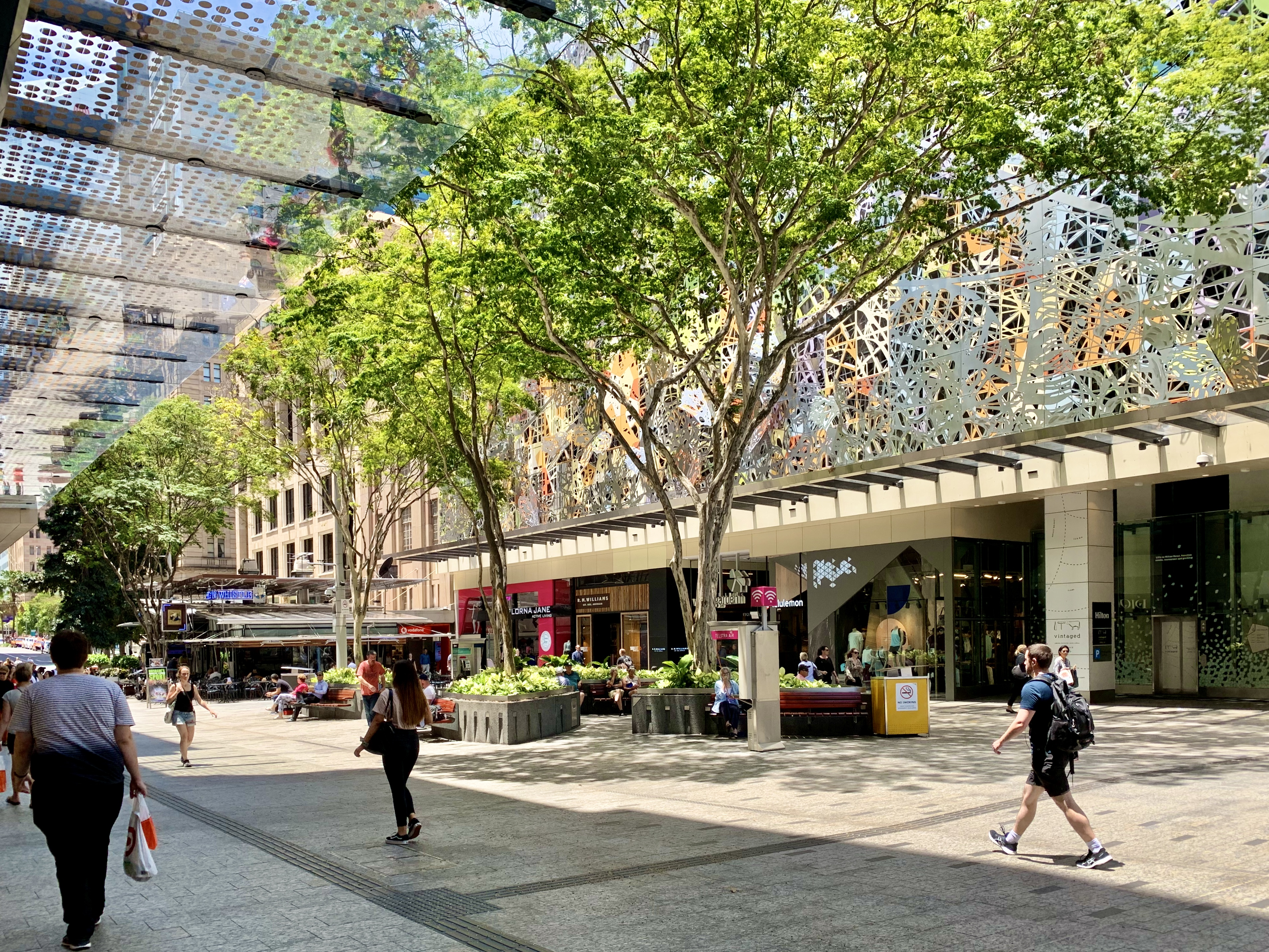 Wintergarden, Queen Street Mall, Brisbane